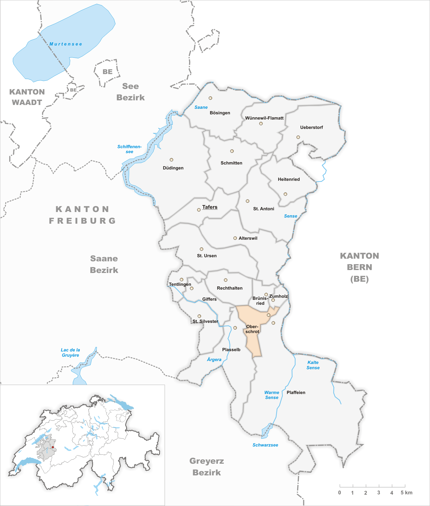 Municipality Oberschrot